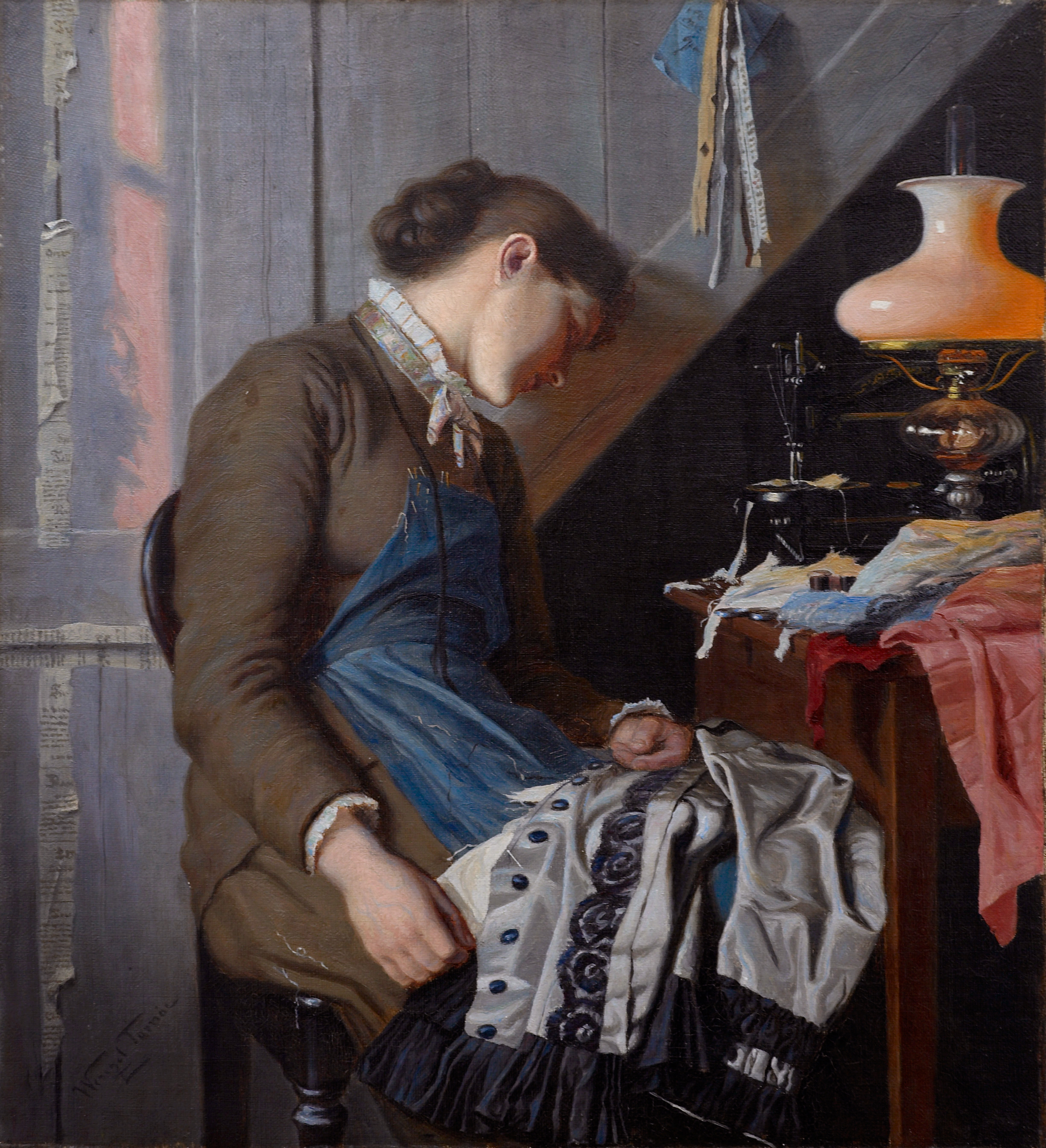 Seamstress. Whit Sunday morning